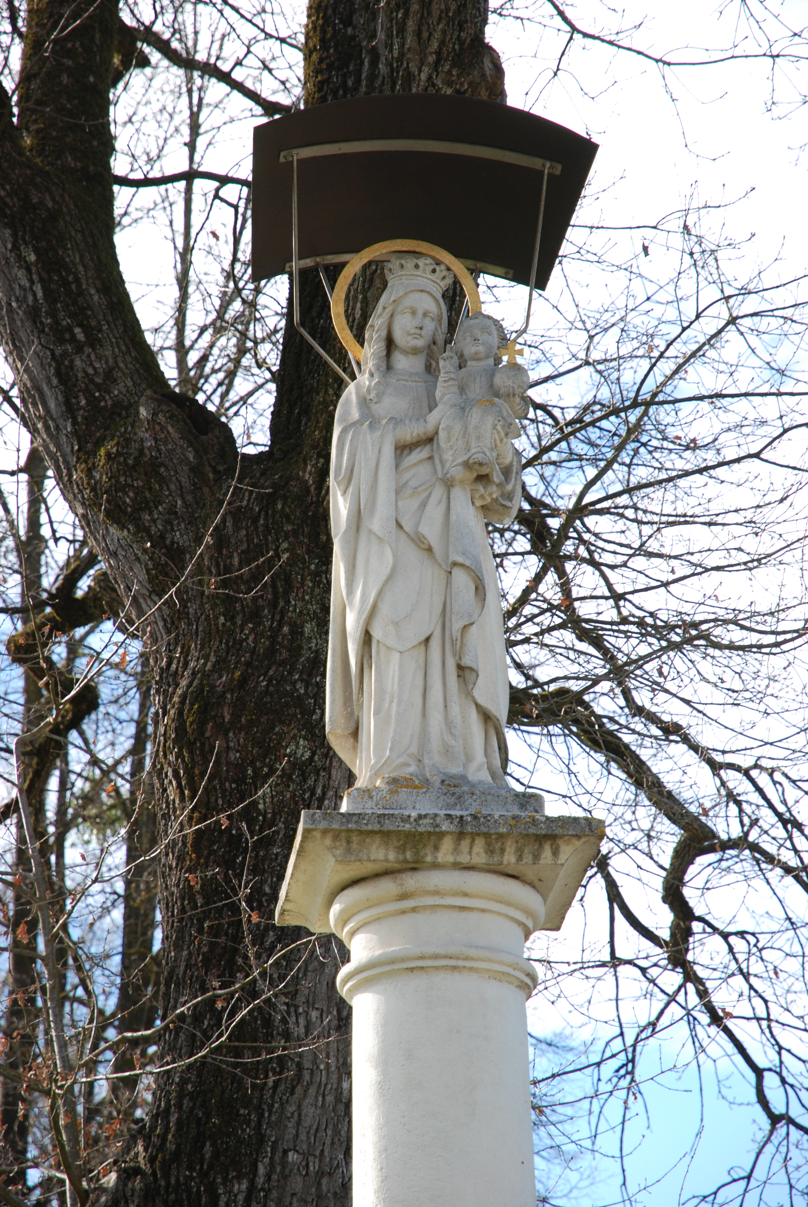 Mariensaeule Mettersdorf am Sasbach